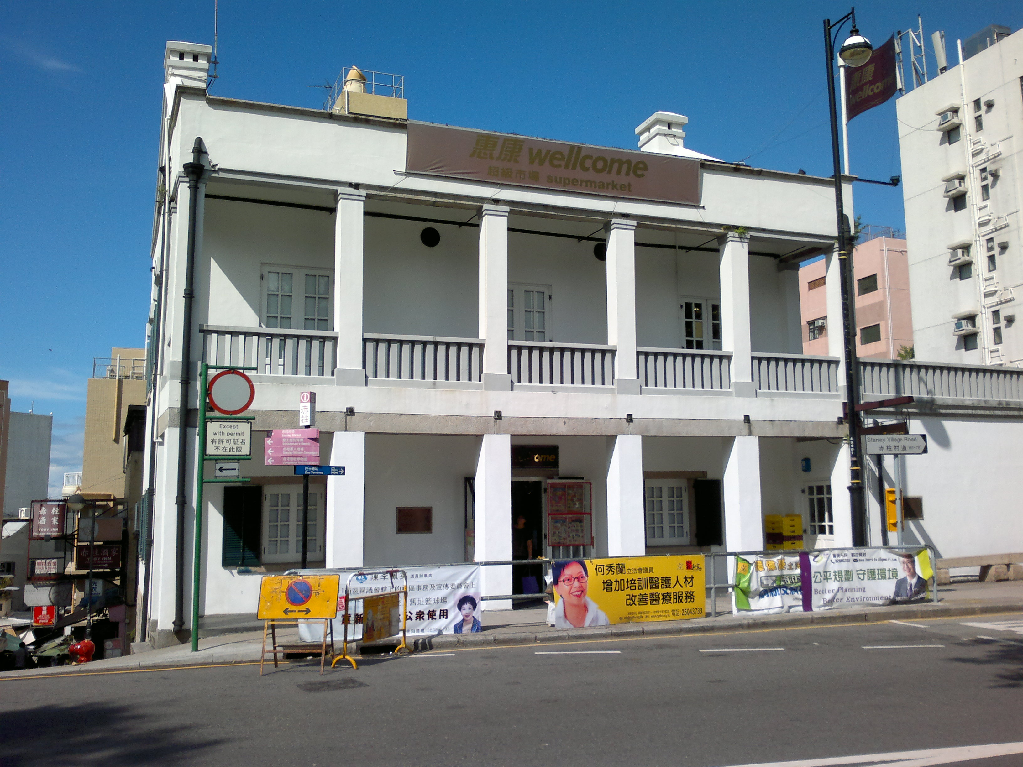 Old Stanley Police Station